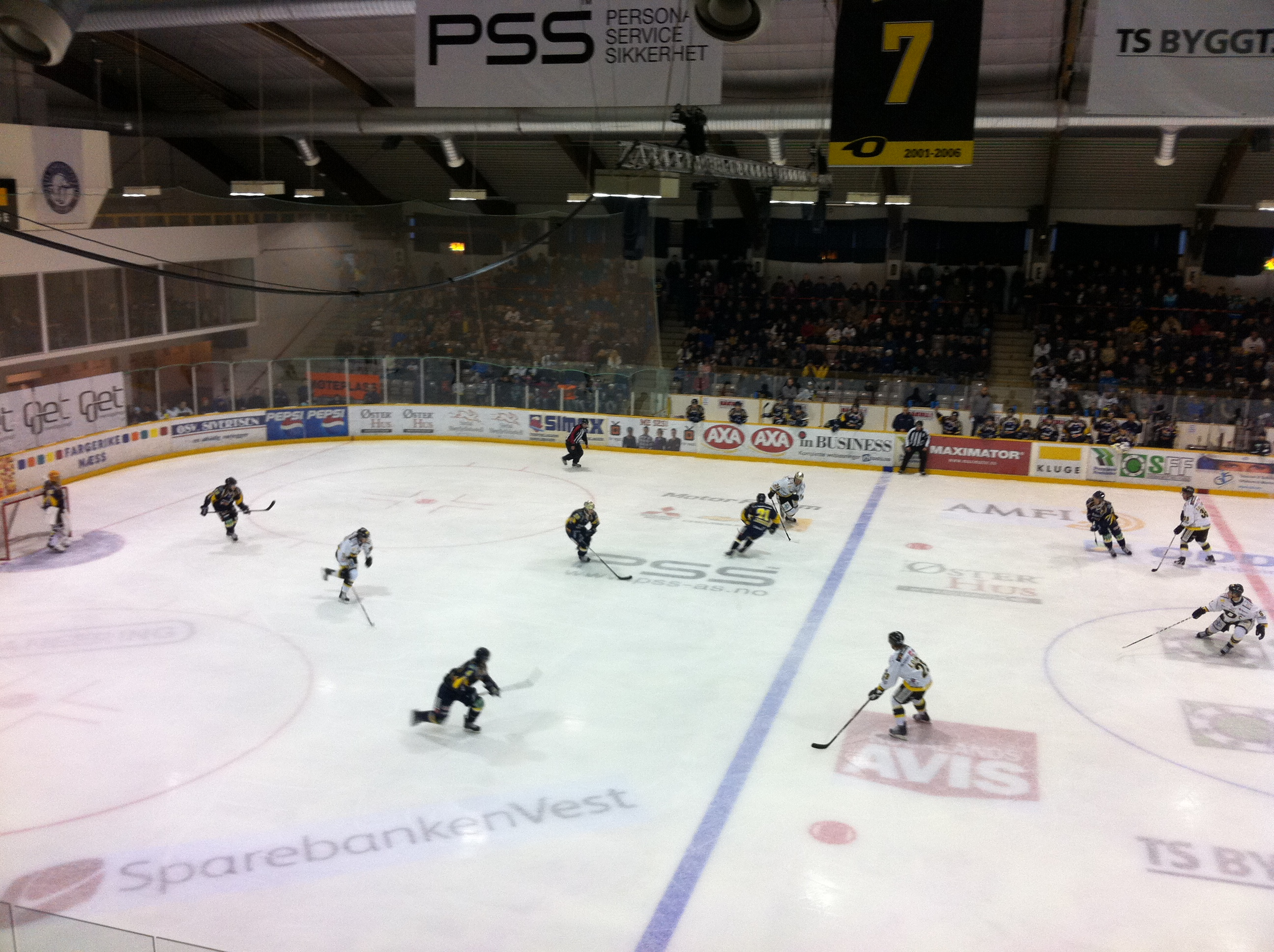 A picture from a game between Stavanger Oilers and Storhamar Dragons at Siddishallen in Stavanger.